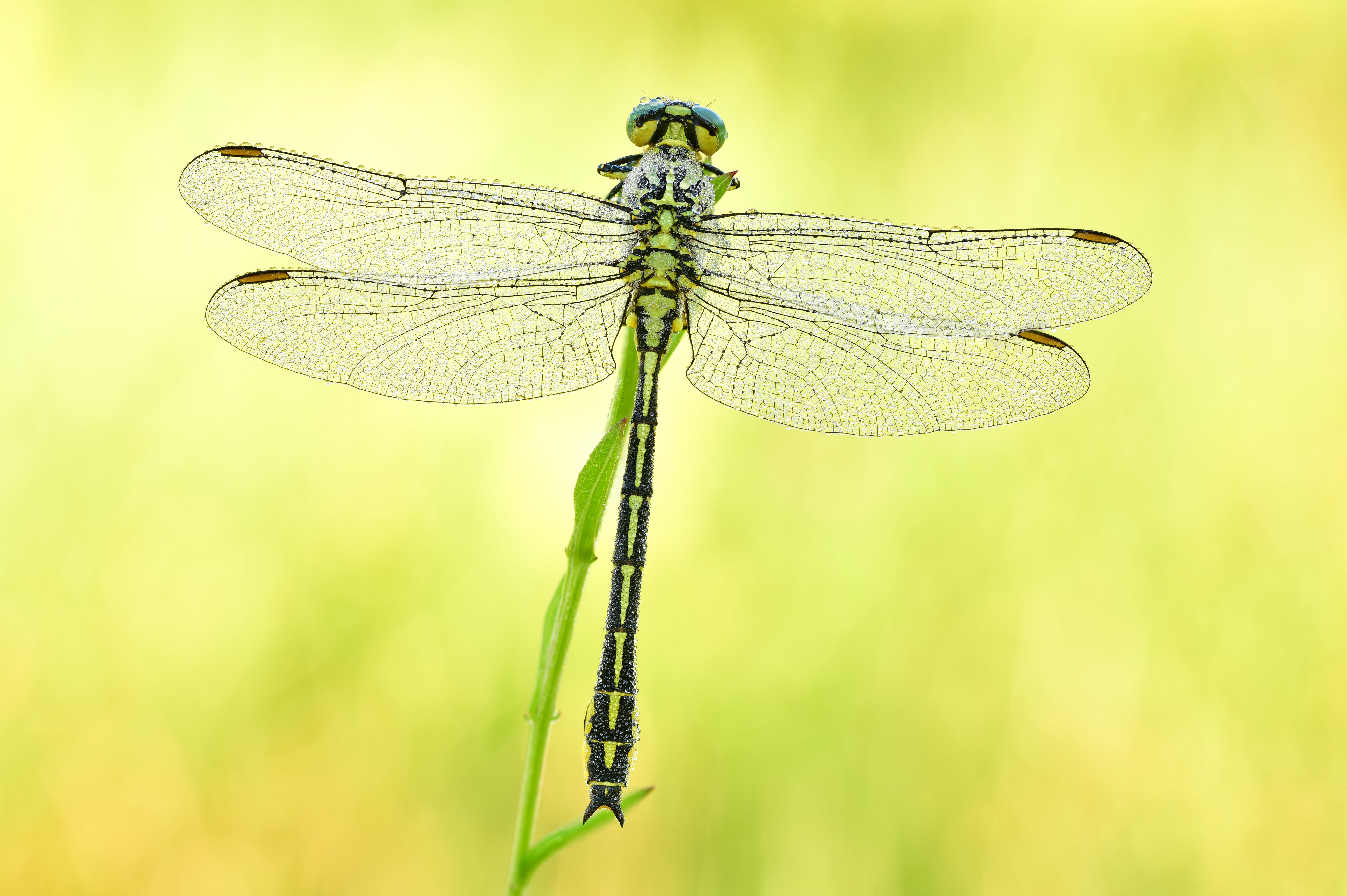 River clubtail or yellow-legged dragonfly (Gomphus flavipes). Rare find in the Biosphere Reserve River Landscape Elbe-Brandenburg near Rühstädt in a small meadow. G. flavipes has become relatively rare in most Western European countries due to water pollution and river regulation.